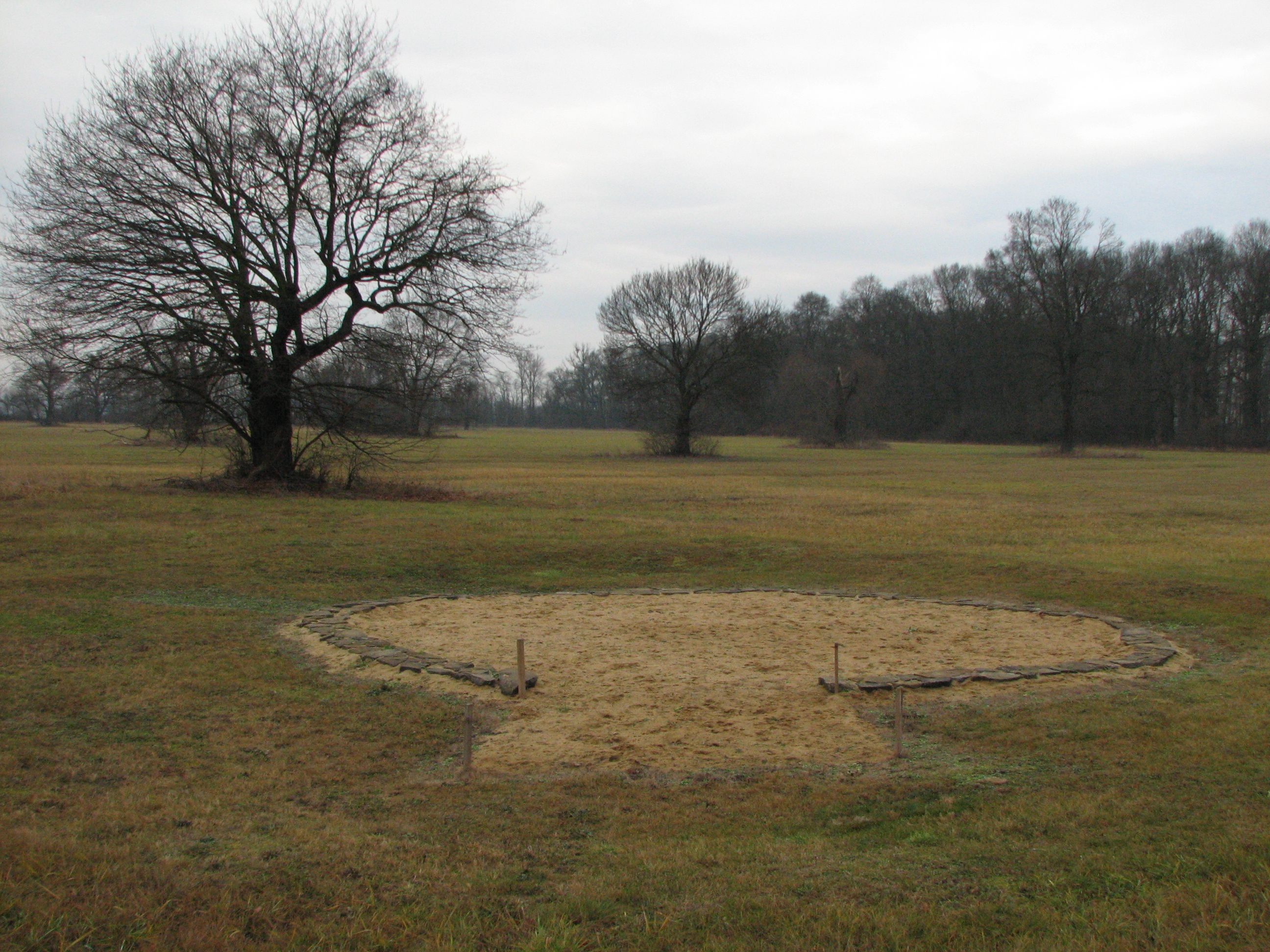 Archaeological museum Mikulčice valy - stone foundations of a church